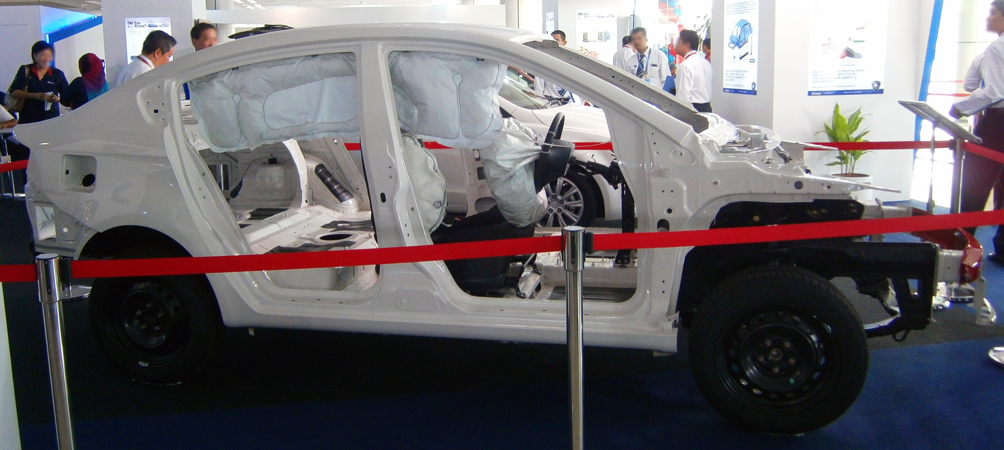 Proton Prevé RESS (Reinforced Safety Structure). Designed & Assembled in Malaysia